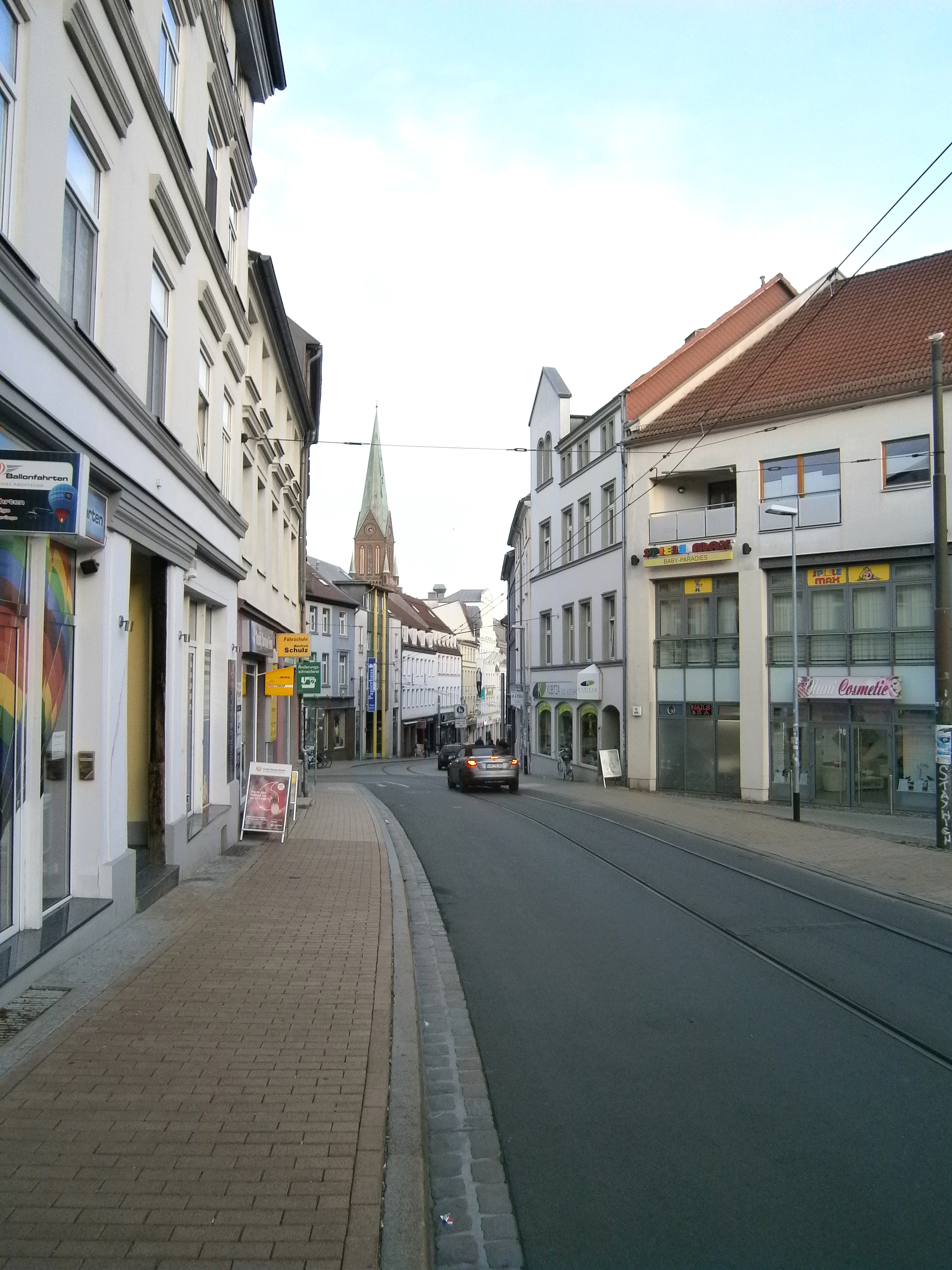 Wittenburger Strasse in Schwerin in Mecklenburg-Vorpommern. View from west in direction Marienplatz.